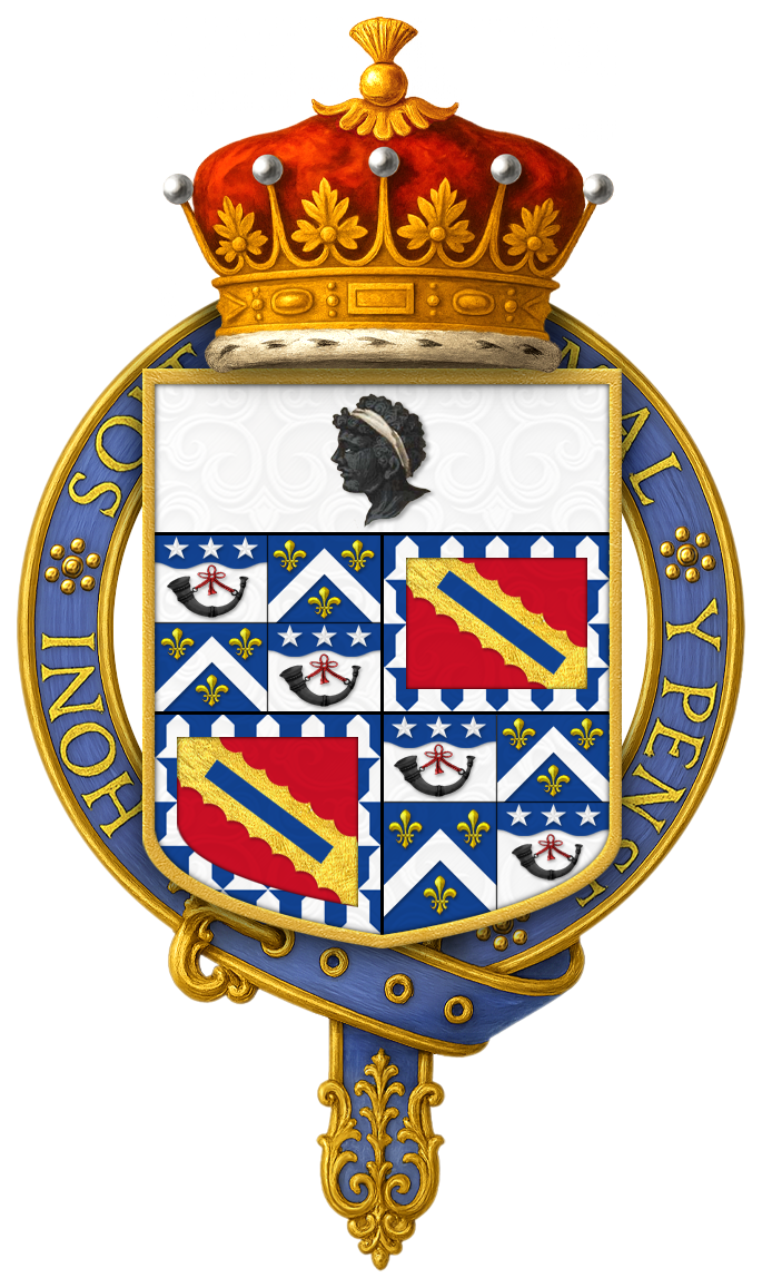 Garter-encircled shield of arms of Gilbert Elliot-Murray-Kynynmound, 4th Earl of Minto, KG, as displayed on his Order of the Garter stall plate in St. George's Chapel. ARMS: Quarterly, 1st and 4th grand quarters, quarterly, 1st and 4th argent a buglehorn sable stringed and garnished gules, on a chief wavy azure three mullets of the first, for MURRRAY, 2nd and 3rd, azure a chevron argent between three fleurs-de-lis or, for KYNYNMOUND; 2nd and 3rd grand quarters, gules on a bend engrailed or, a baton azure within a bordure vair, for ELLIOT; over all a chief of augmentation argent, charged with a Moor's head couped in profile proper, being the arms of Corsica. CREST: (not displayed here) A dexter arm embowed, issuant from clouds, throwing a dart all proper. Motto over the crest, "Non eget arcu." SUPPORTERS: (not displayed here) Dexter, an Indian sheep, Sinister, a fawn, both proper. MOTTO: (not displayed here) Suaviter et fortiter.